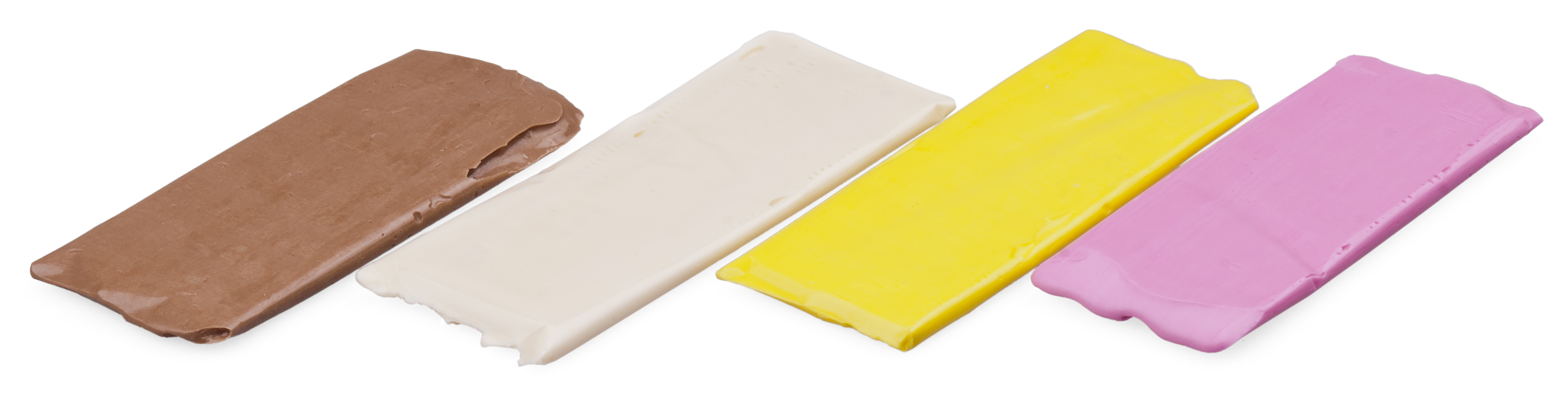 A selection of Bonomo Turkish Taffy flavors: chocolate, vanilla, banana and strawberry.